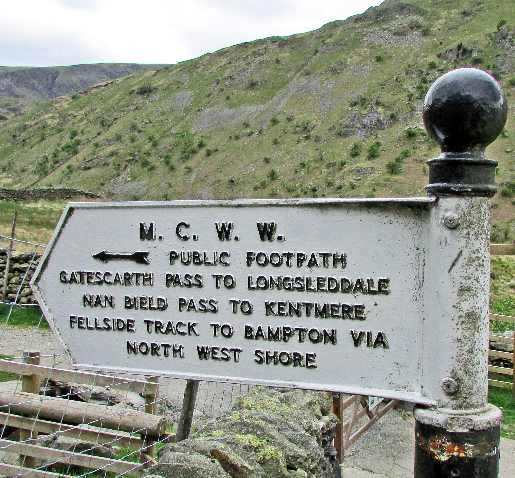 Manchester Corporation Water Works (MCWW) sign from 1930s, still in place in 2016, at the road end car park in Mardale.